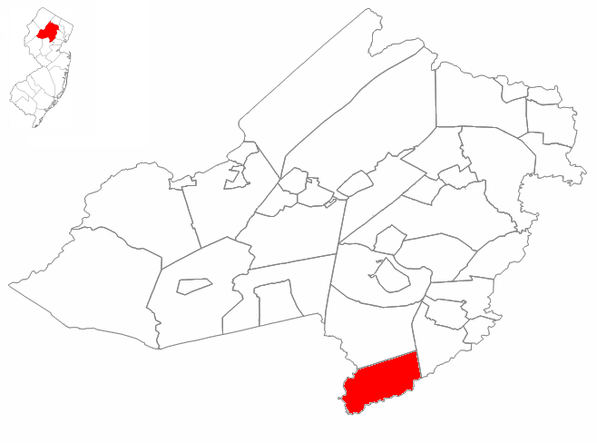 Position of Long Hill Township (highlighted in red) in Morris County. Morris County's position in New Jersey is in turn highlighted in red.